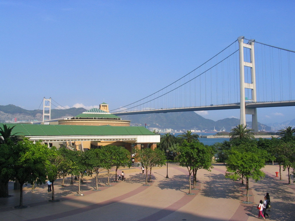 珀麗灣 貝殼廣場 Shell Plaza of Park Island